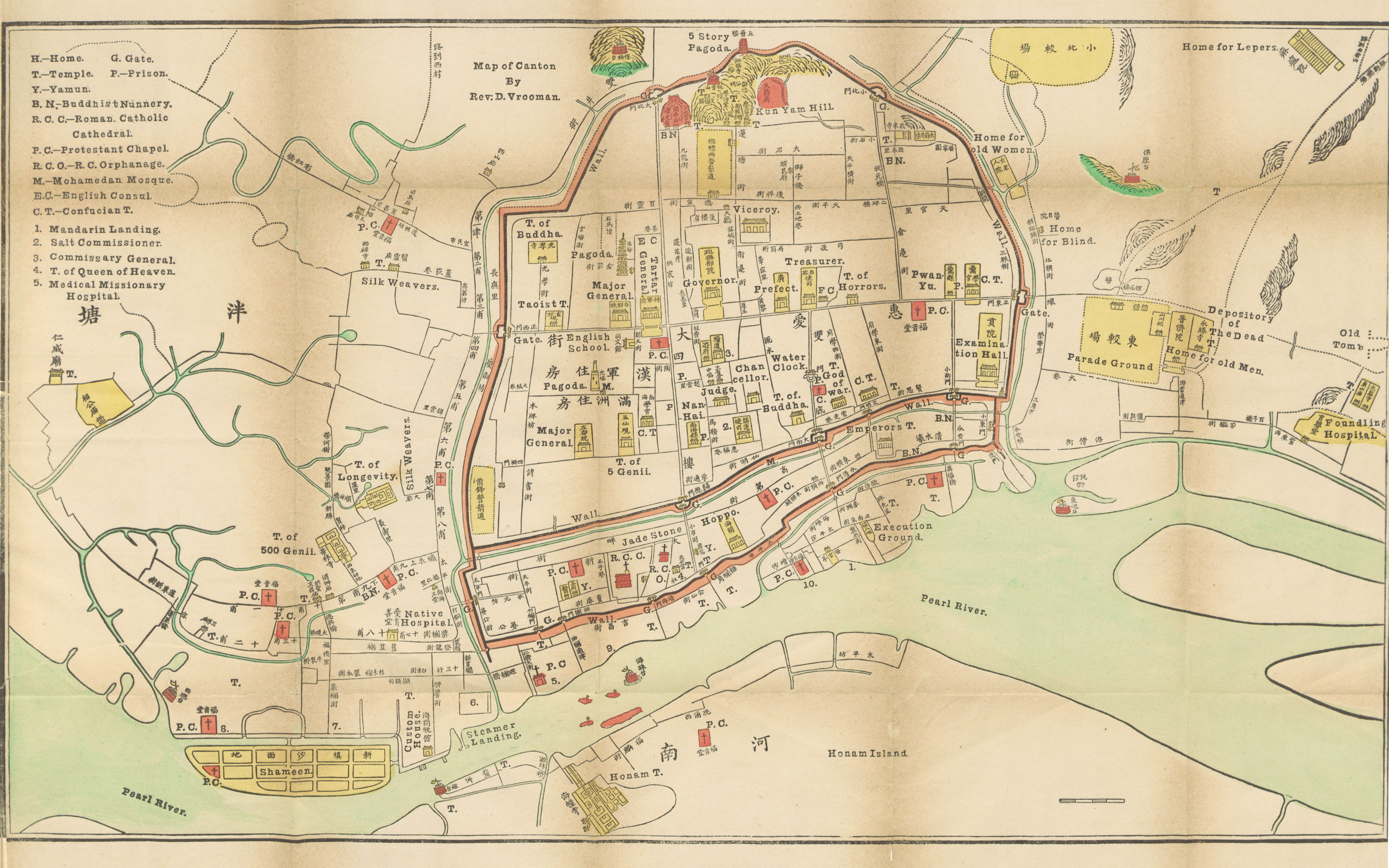 "Map of Canton by Rev. D. Vrooman", a map of Guangzhou updating the decades-old maps by Daniel Vrooman.